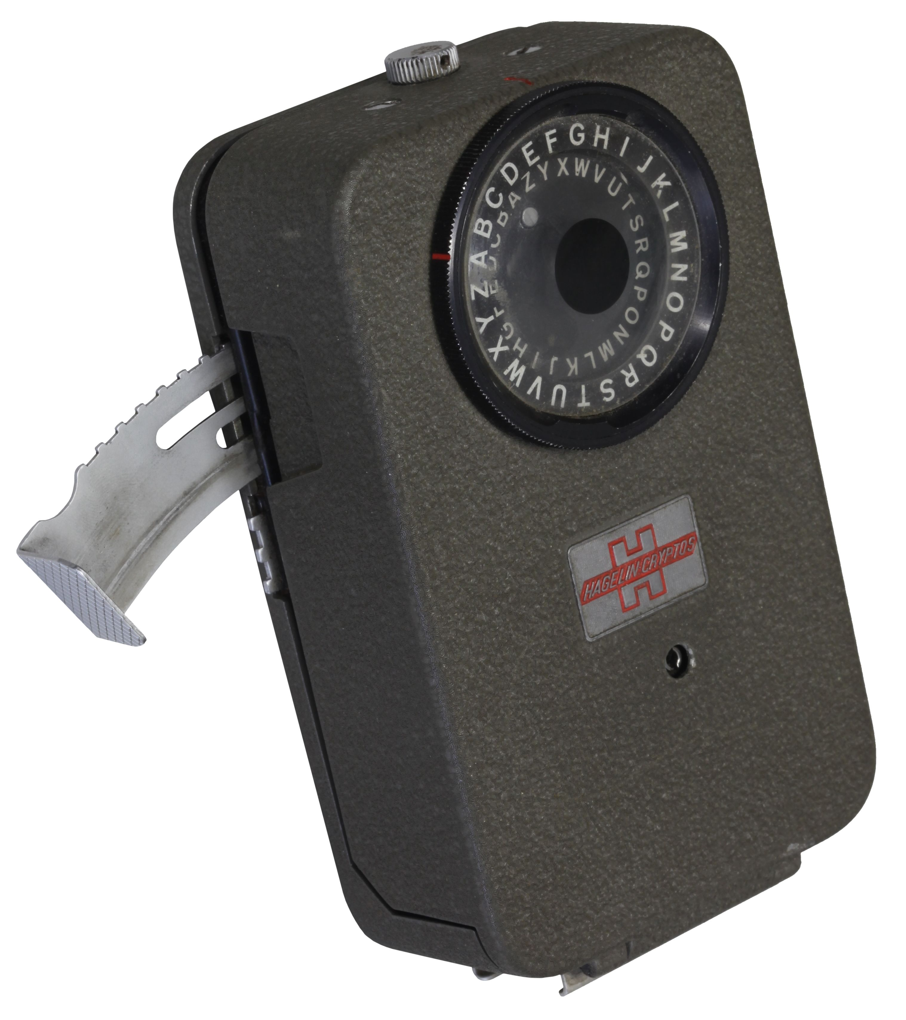 Hagelin CD-57. Cryptography collection of the Swiss Army headquarters The making of this document was supported by Wikimedia CH. (Submit your project!) For all the files concerned, please see the category Supported by Wikimedia CH.